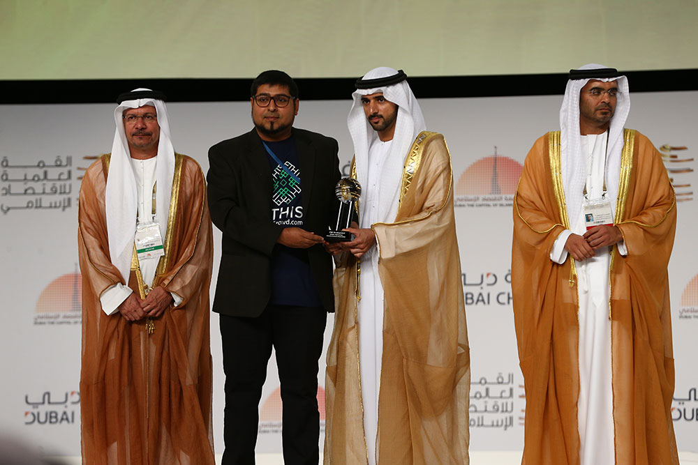 Ethis Ventures was awarded the Islamic Economy Award for SME Development. Founder Umar Munshi received the award from His Excellency Sheikh Hamdan Bin Mohammed Bin Rashid al-Maktoum, the crown prince of Dubai.